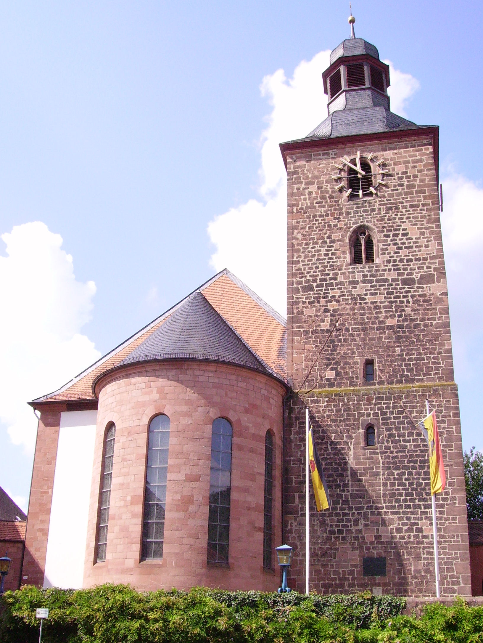 view of Annweiler, Germany